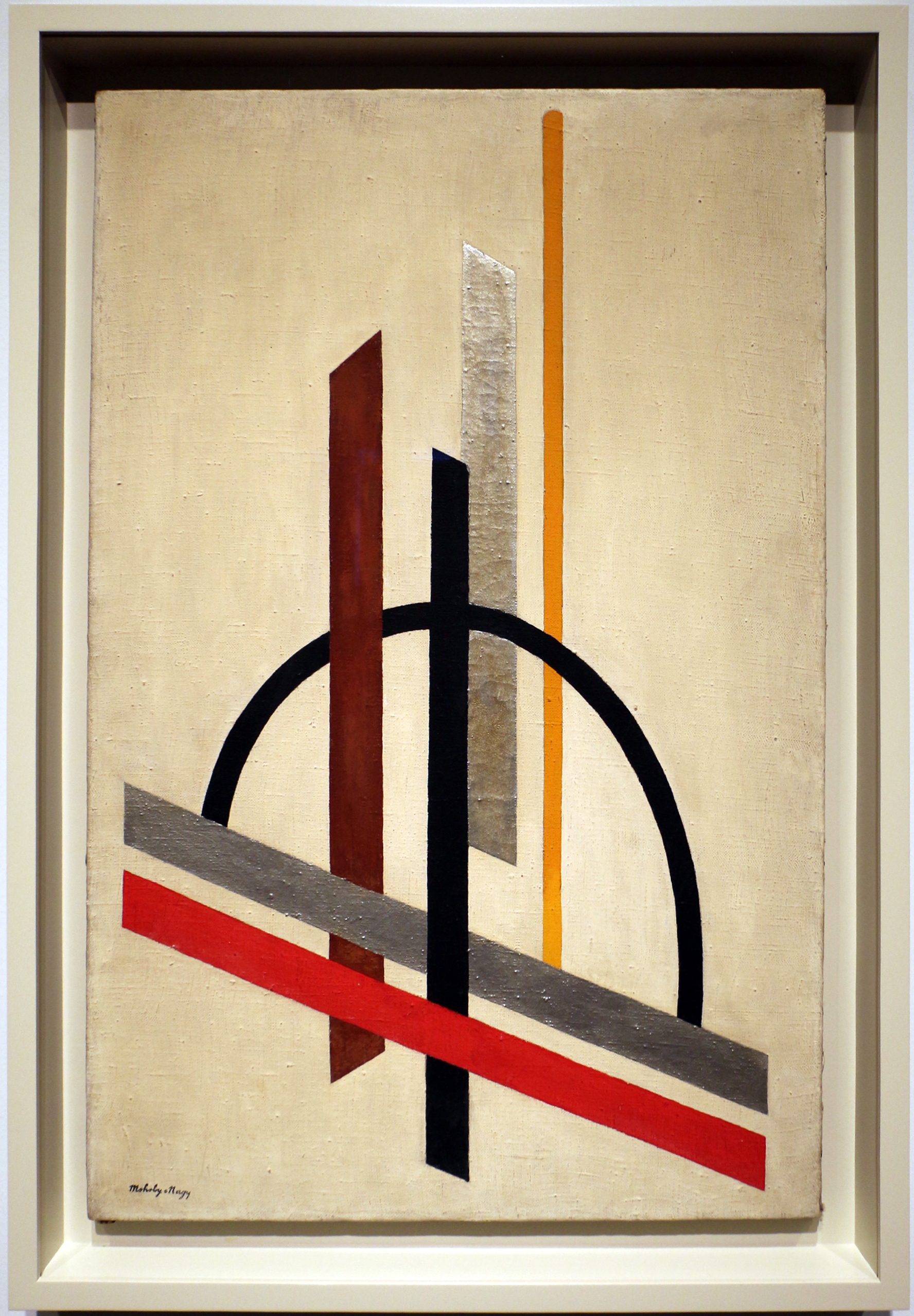 Moholy-Nagy: Future Present (2016 exhibition)